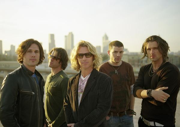 Collective Soul group